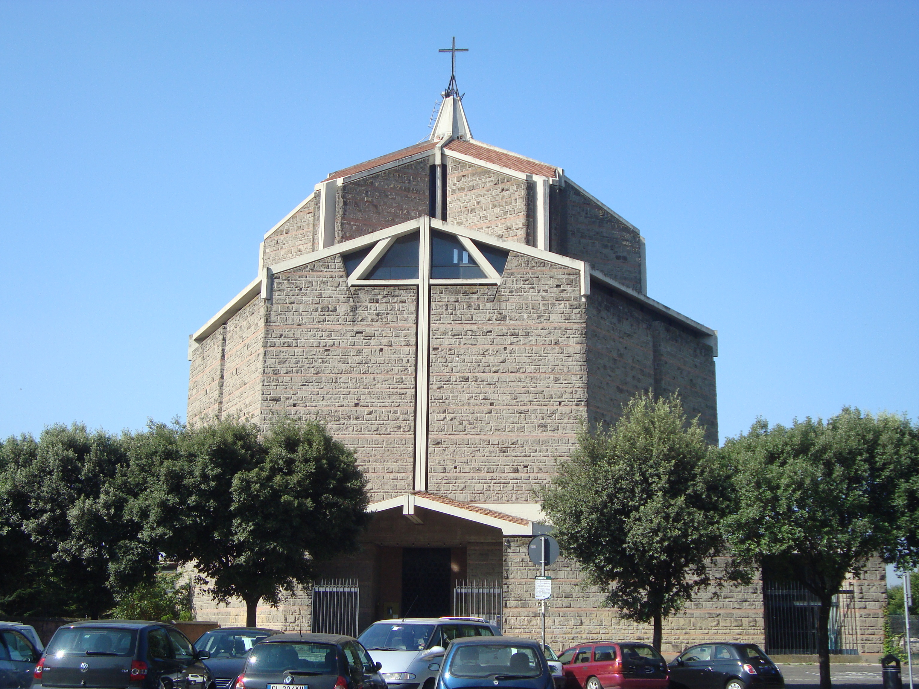 External view of San Policarpo church at Piazza Aruleno Celio Sabino in Rome